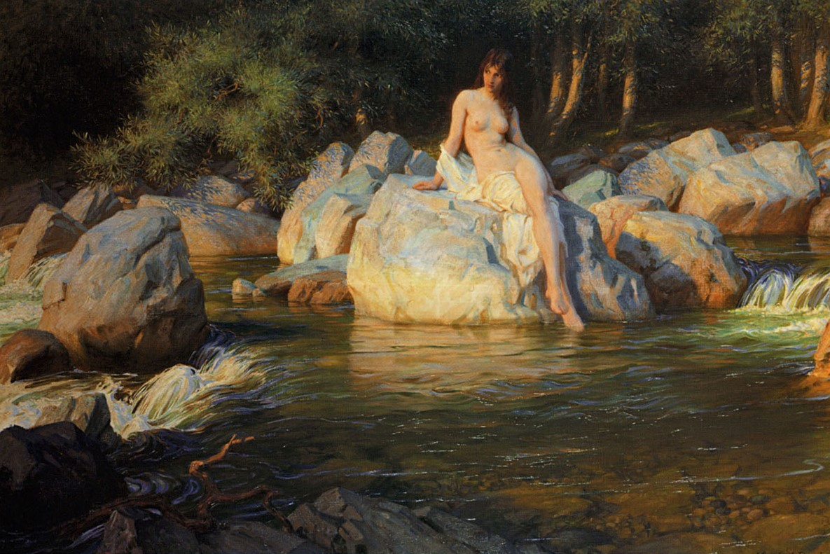 The Kelpie